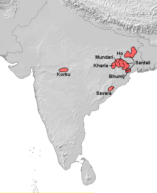 Area where Munda languages are spoken